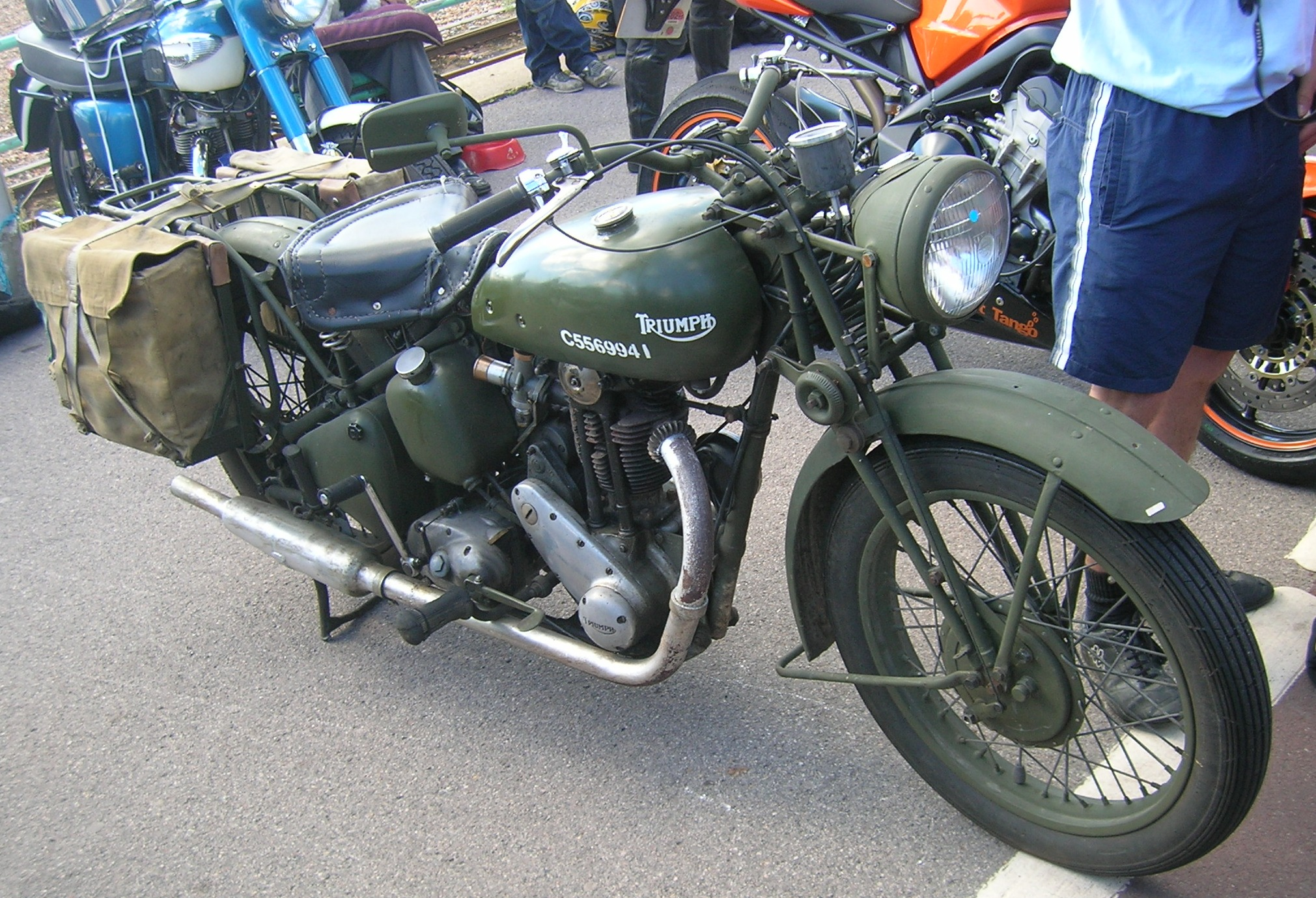 same model as used by character Kip in both the book and film of Michael Ondaatje's 'The English Patient'